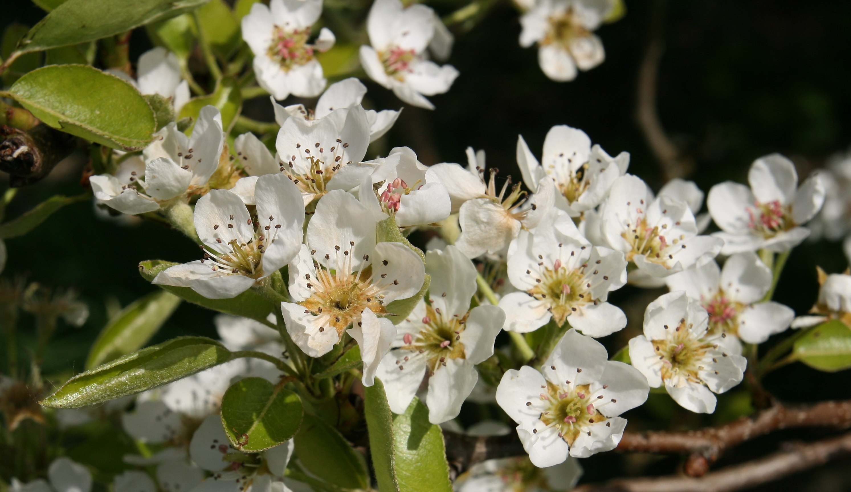 Blossom of the pear variety Williams